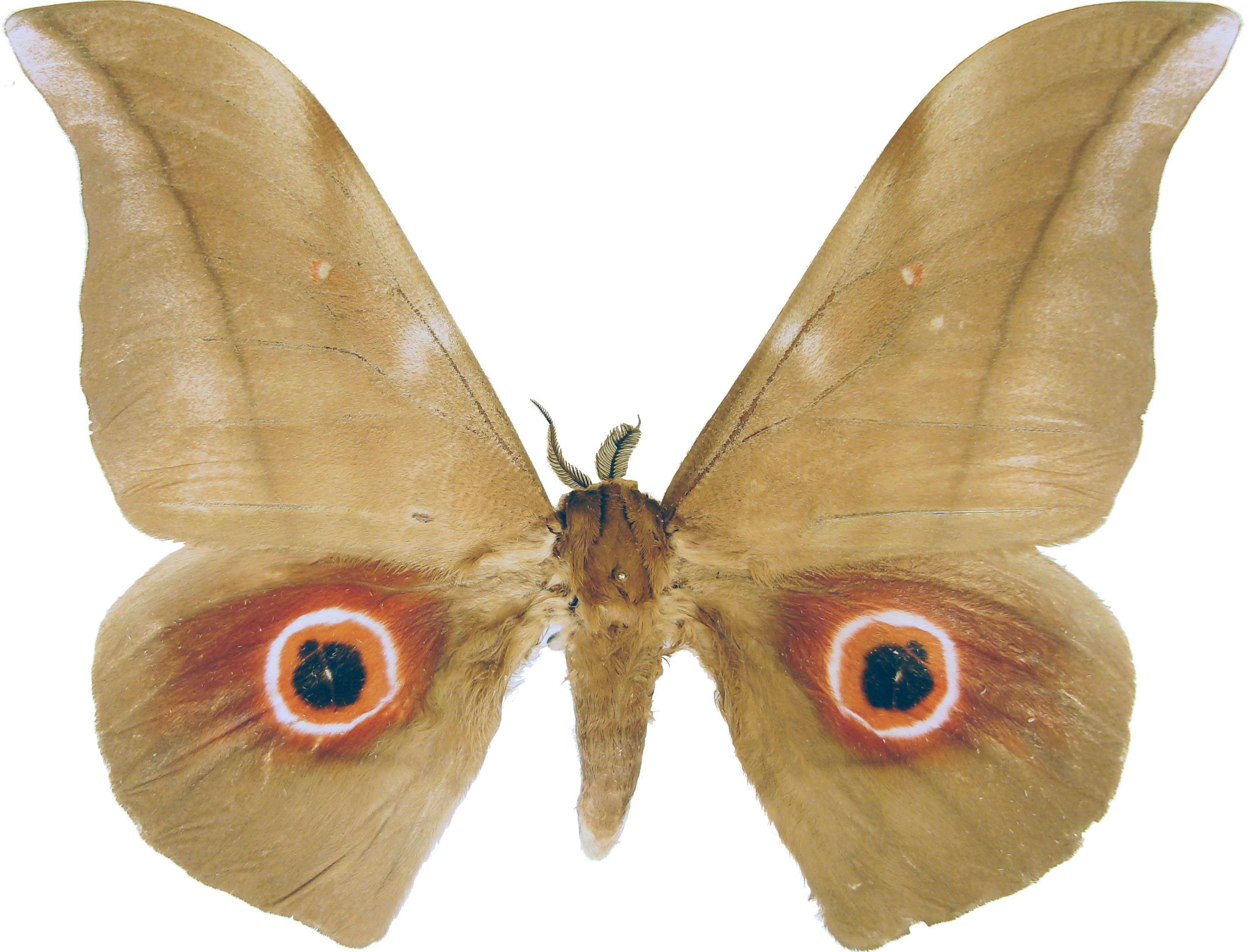 Lobobunaea phaetusa from Mont Kupe, Cameroon